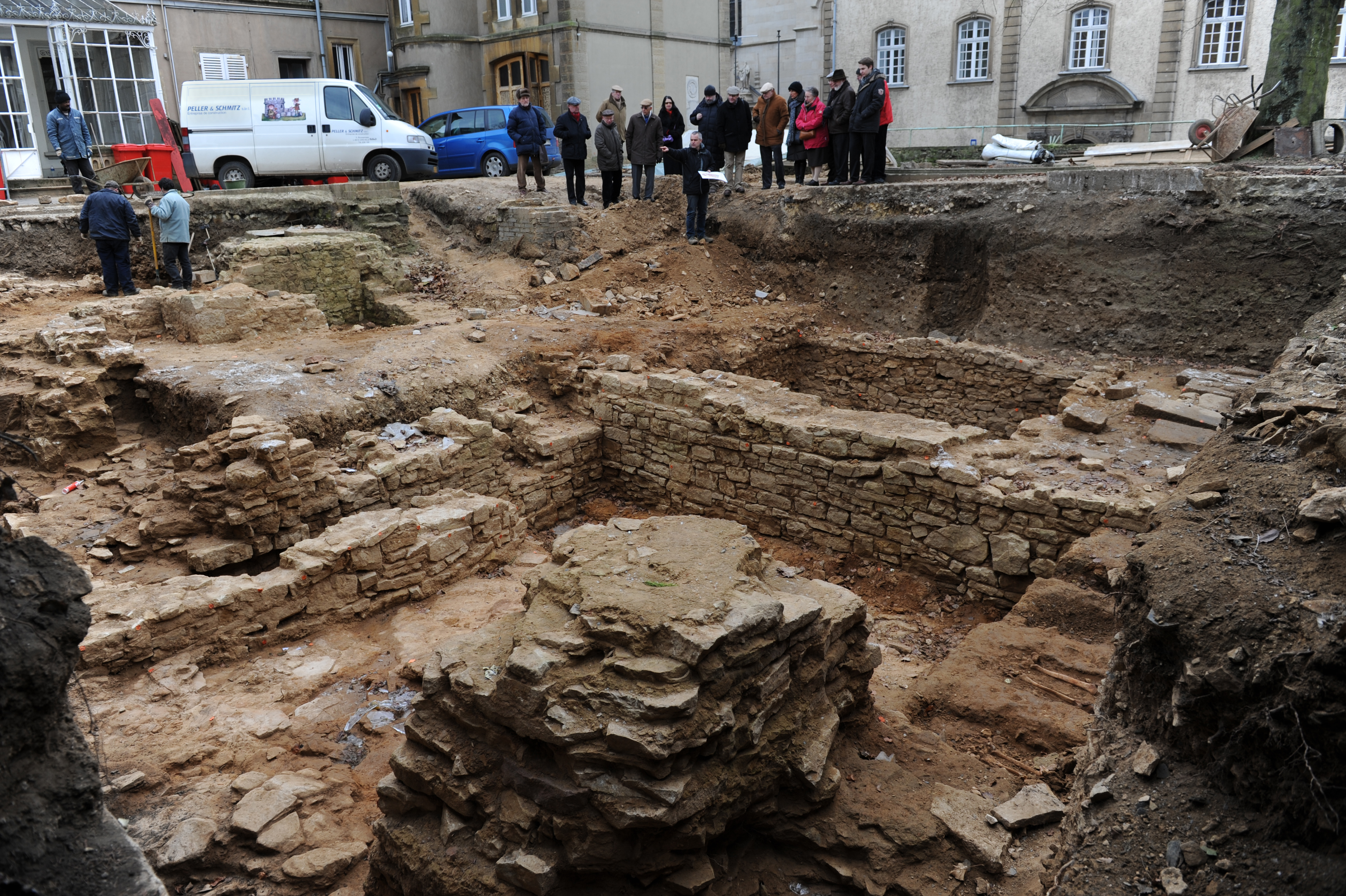 Luxembourg City, square Guillaume II: archaeologic excavation in 2009/2010. Two open tombs from the Middle Ages are seen at the lower right.